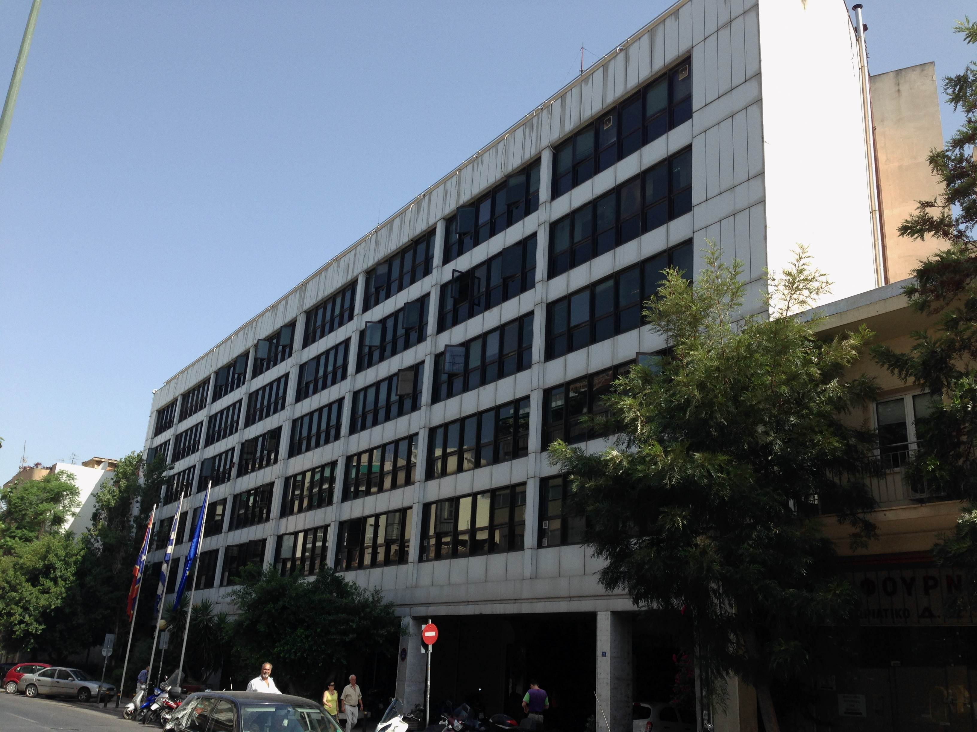 It is in Liosion street and is the central building of the municipality of Athens. The old in Korzia square is used for ceremonies.